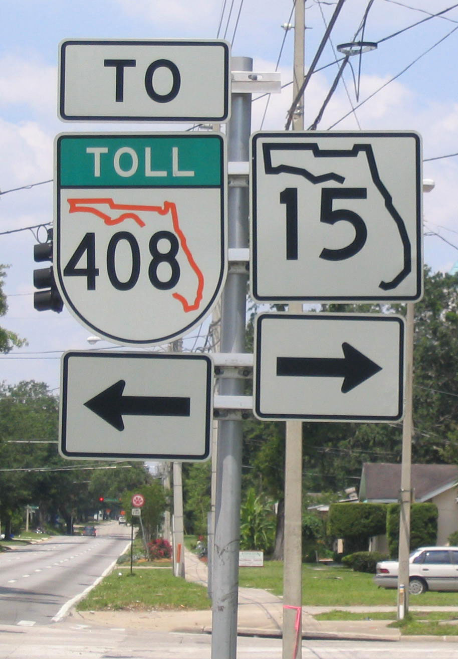 South Street west (SR 15 north) at Mills Avenue in Orlando, Florida; SR 5098 is straight ahead and SR 408 is just to the left. Taken by User:SPUI on May 8, 2005.